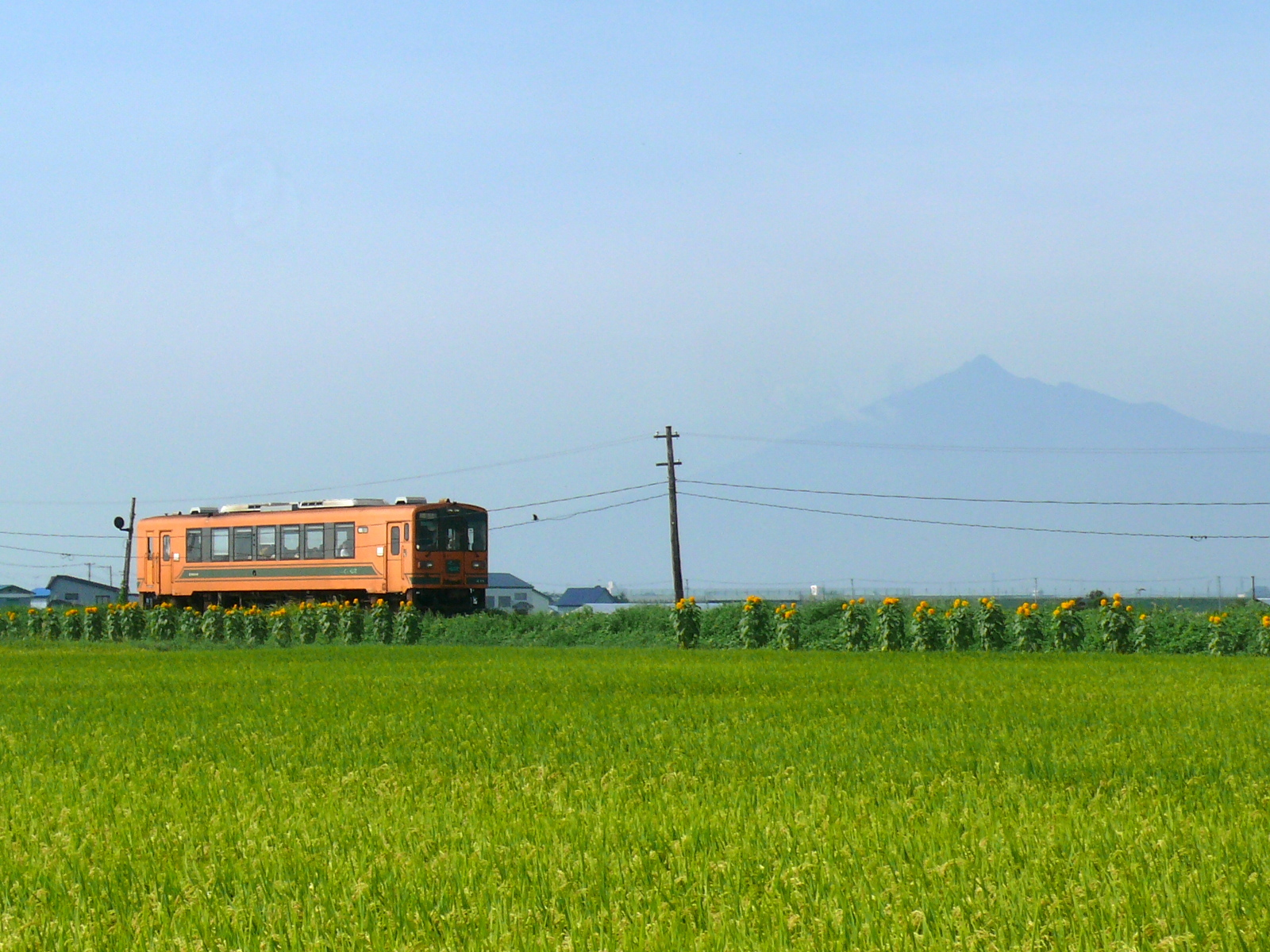 Tsugaru Railway line . (Japan, Aomori Prefecture).